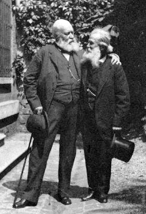 French composer Charles Gouonod (1818-1893) with French painter Ernest Hébert (1817-1908)